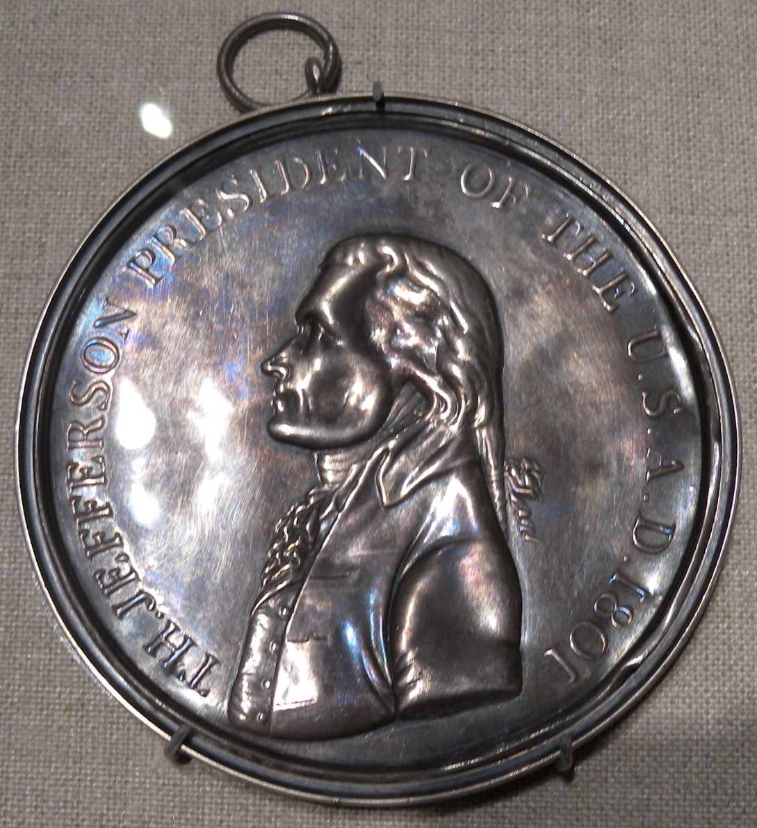 Indian Peace Medals often displayed United States Presidents, such as this one of Thomas Jefferson issued in 1801 and designed by Robert Scott.